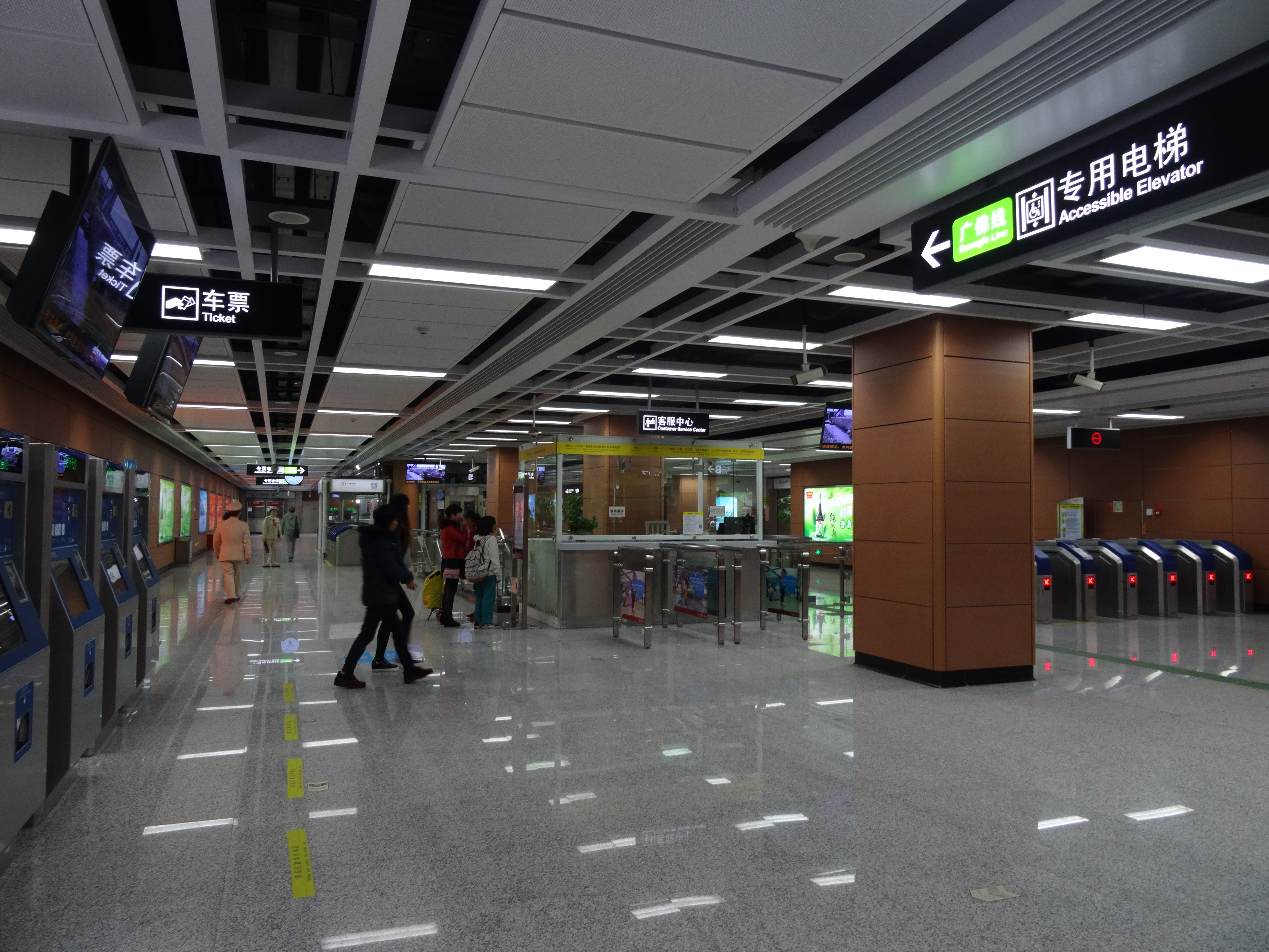 燕岗站站厅